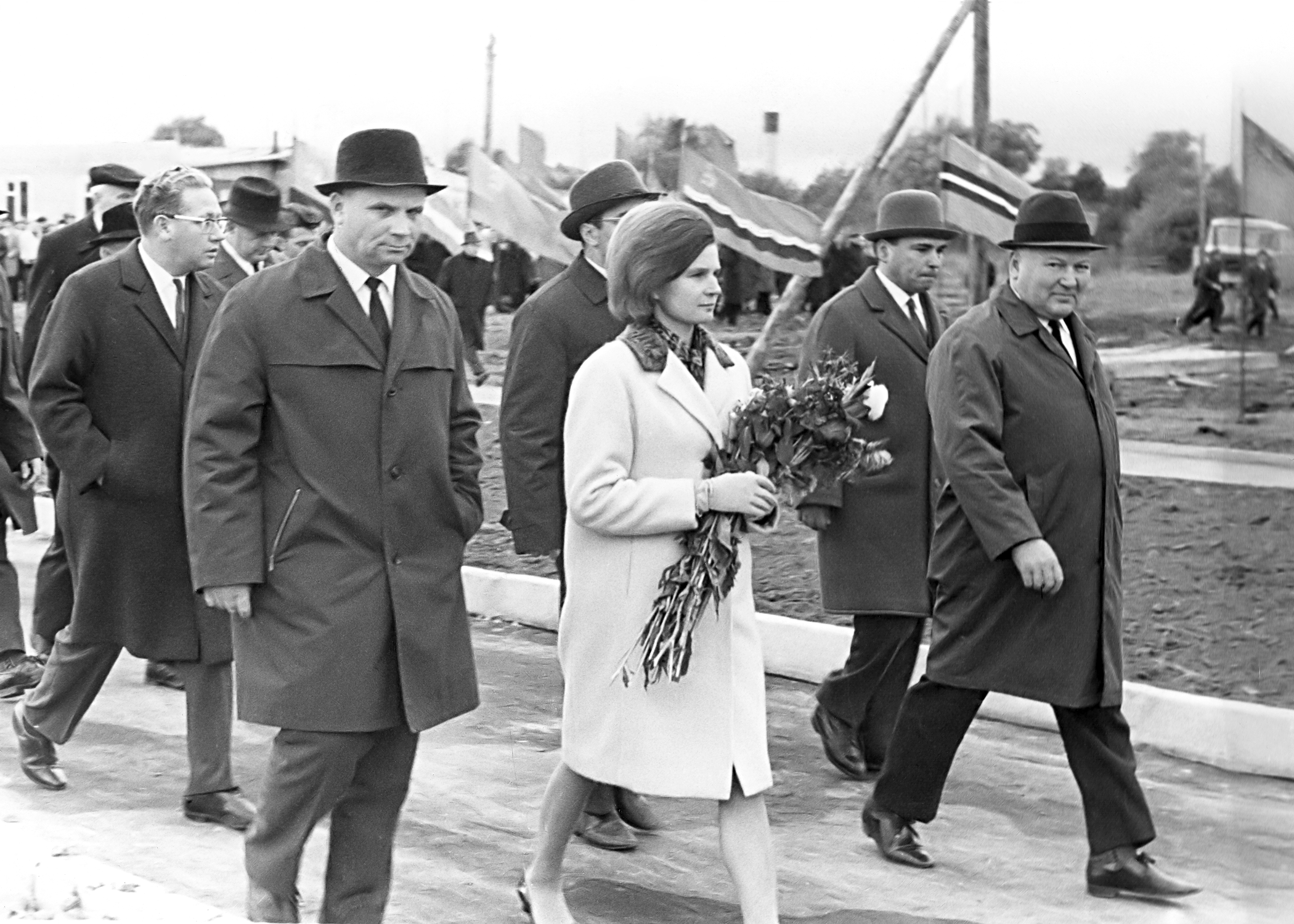 Astronaut Valentina Tereshkova and the first secretary of the Yaroslavl Regional Committee of the CPSU, Fyodor Ivanovich Loschenkov at the opening of the Lenin Museum in Gorki, Pereslavl region